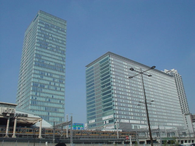 d